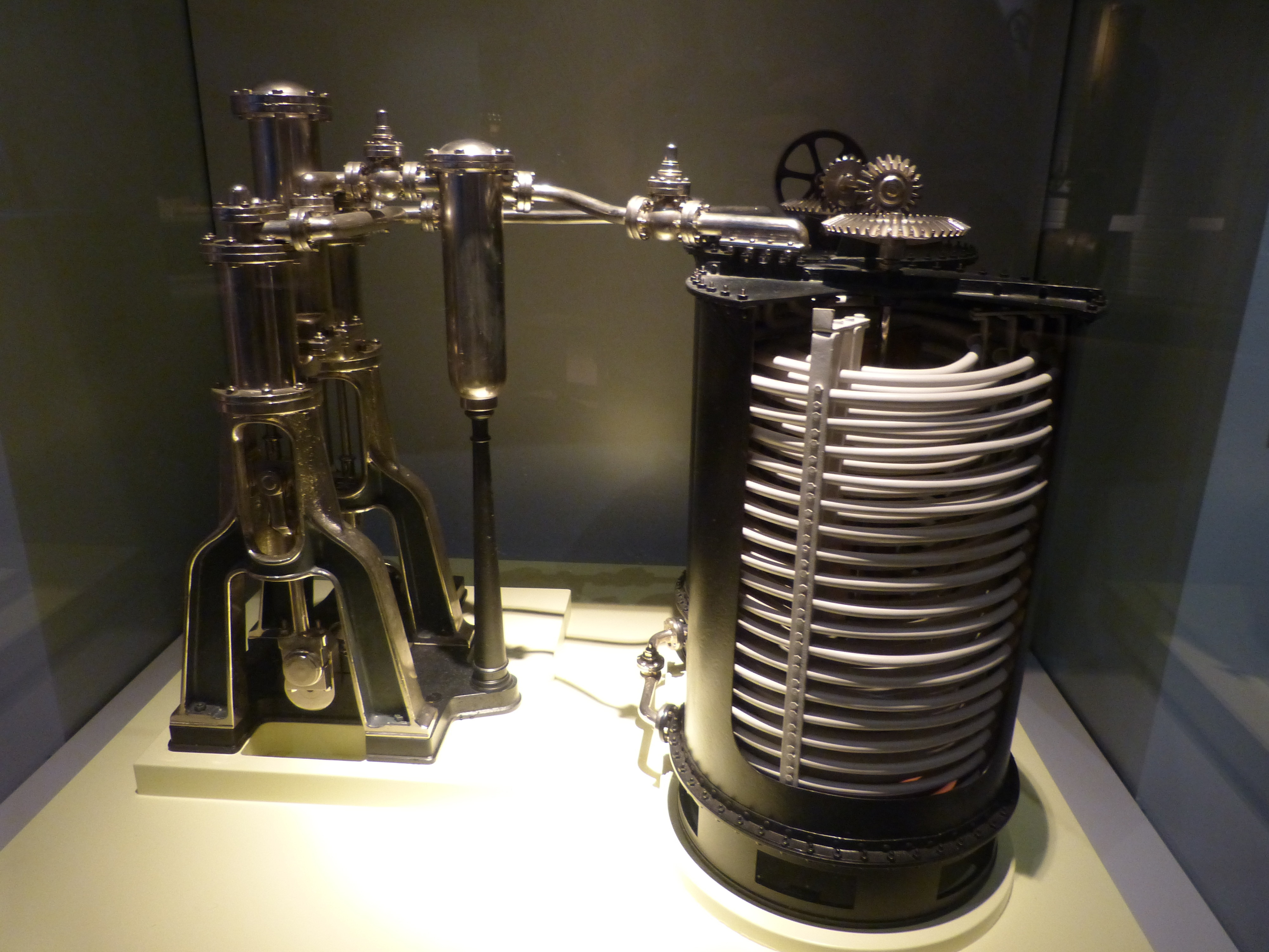 Aldersbach ( Lower Bavaria ). "Beer in Bavaria" exhibition ( 2016 ): Model of a refrigeration compressor ( 1929 ) by Carl von Linde ( Deutsches Museum, Munich )